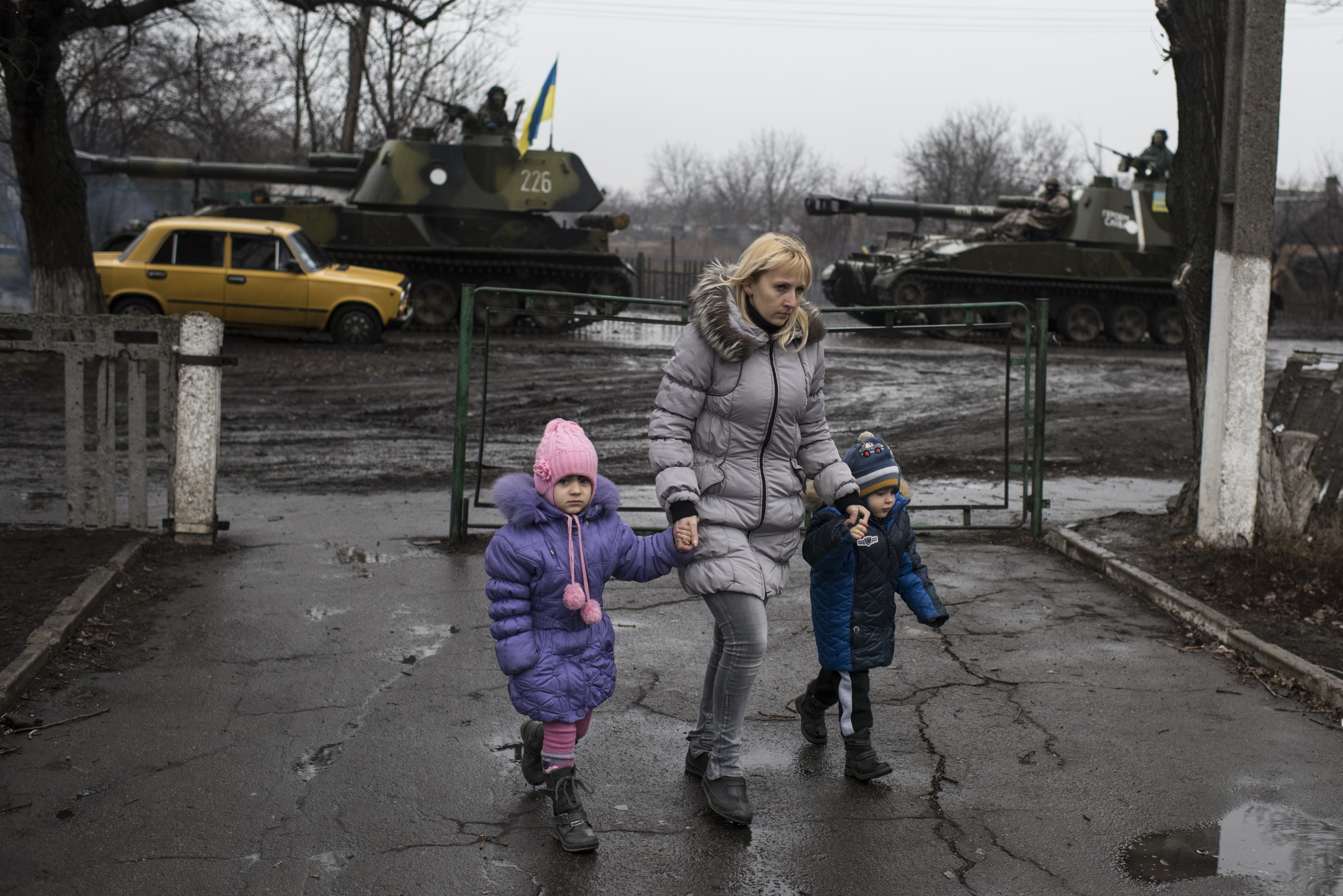 Soviet 152.4 mm self-propelled artillery en:2S3 Akatsiya in the background, March, 2015